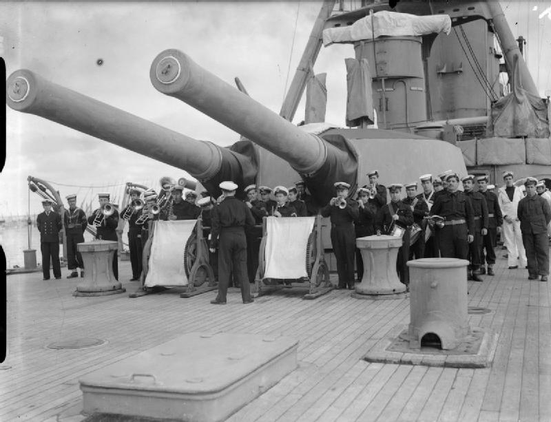 The Greek Navy during the Second World War A Greek Naval Band plays under the 6 inch guns of the Greek cruiser, HHMS GEORGIOS AVEROFF, Flagship of Rear Admiral A Sakellariou, Commander in Chief of the Royal Hellenic Navy, shortly before celebrating Greek Independence Day (25 March).